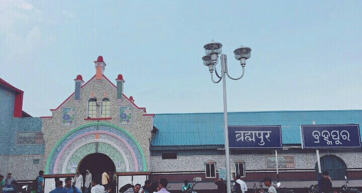 The railway station of brahmapur city in odisha